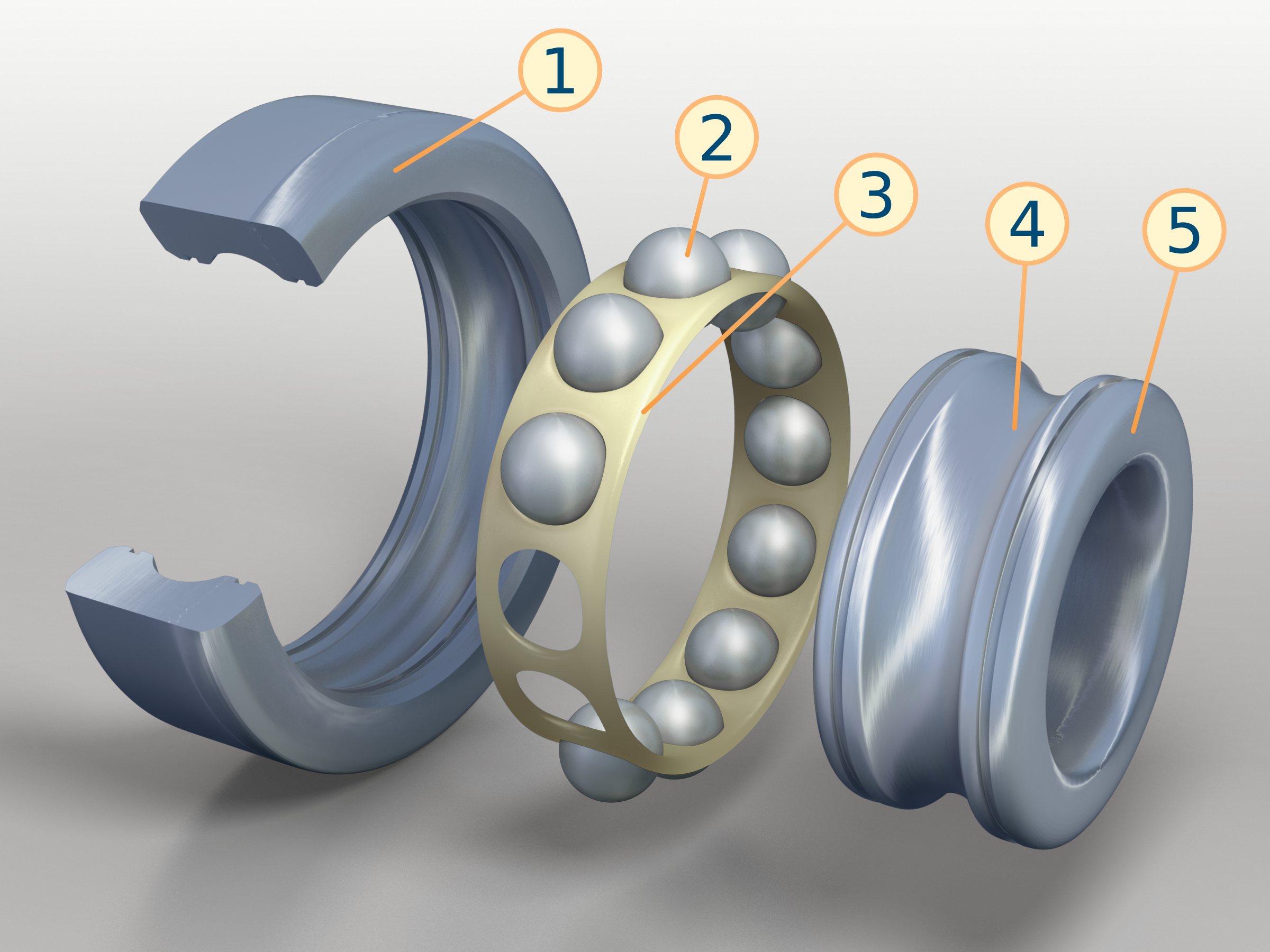 Exploded view of a rolling-element bearing. outer ring ball cage ball race inner ring